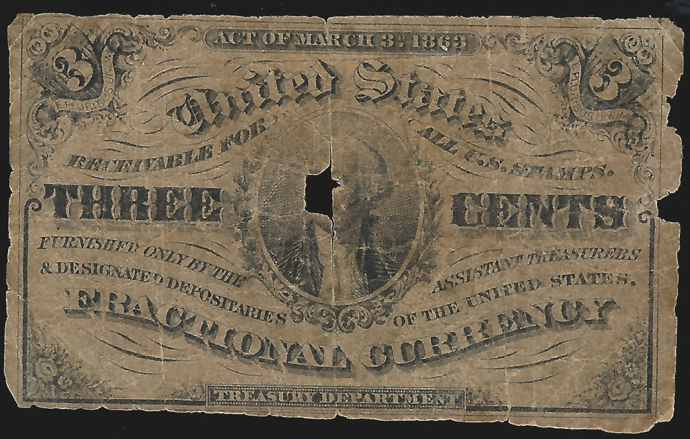 3c Third Issue fractional currency